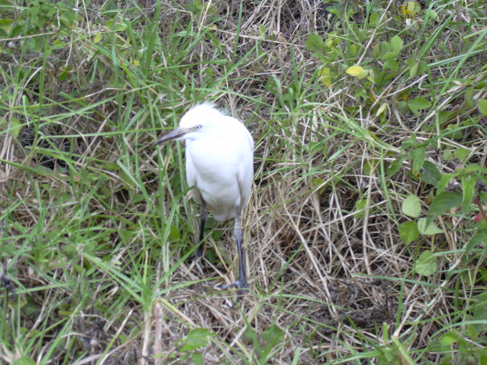 Neonotonia wightii (Bubulcus ibis). Location: Maui, Auwahi